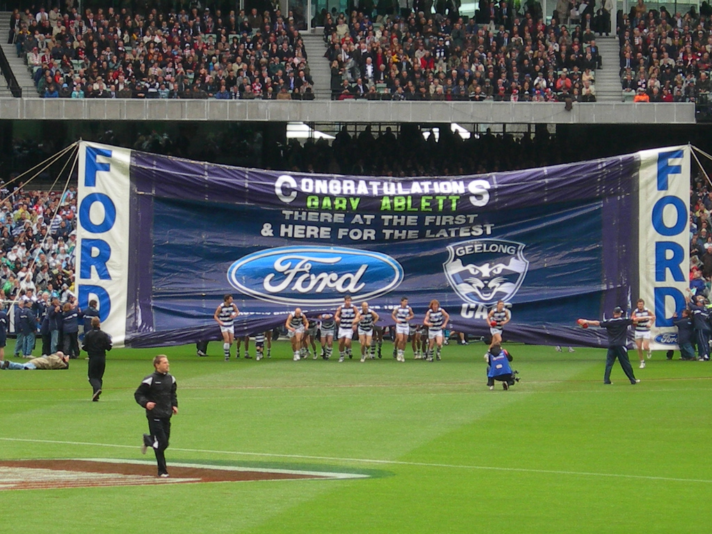 Enter the Cats during the 2009 AFL Grand Final.